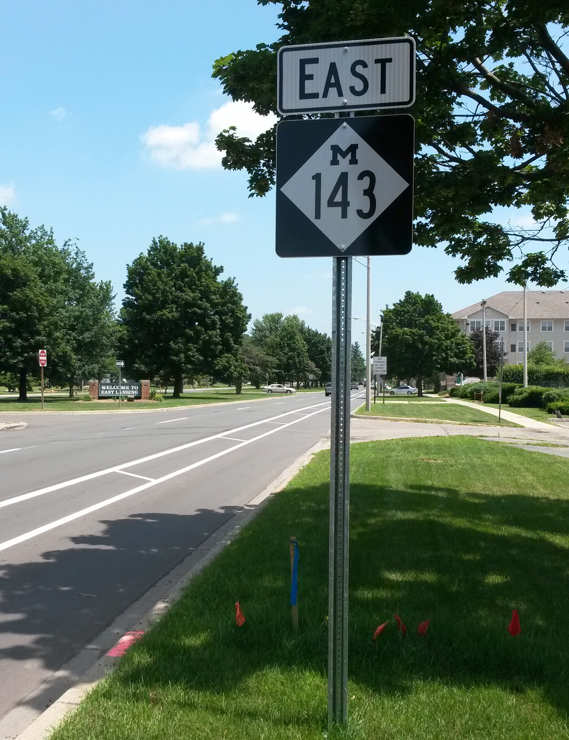 M-143 route marker and East Lansing welcome sign